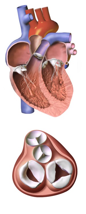 Heart Valves. See a full animation of this medical topic.